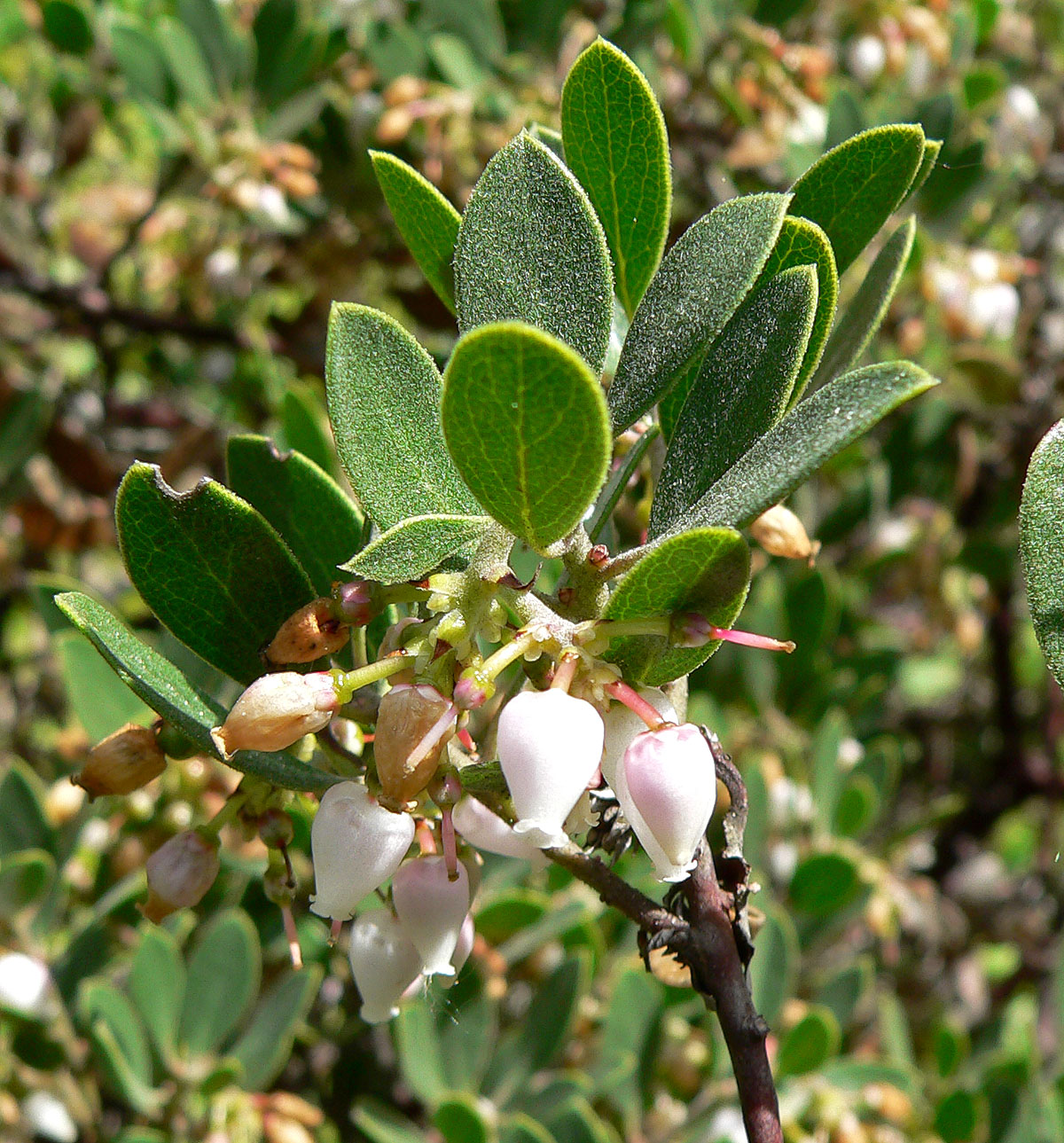 Photo of Arctostaphylos franciscanaat the Regional Parks Botanic Garden, Berkeley, California